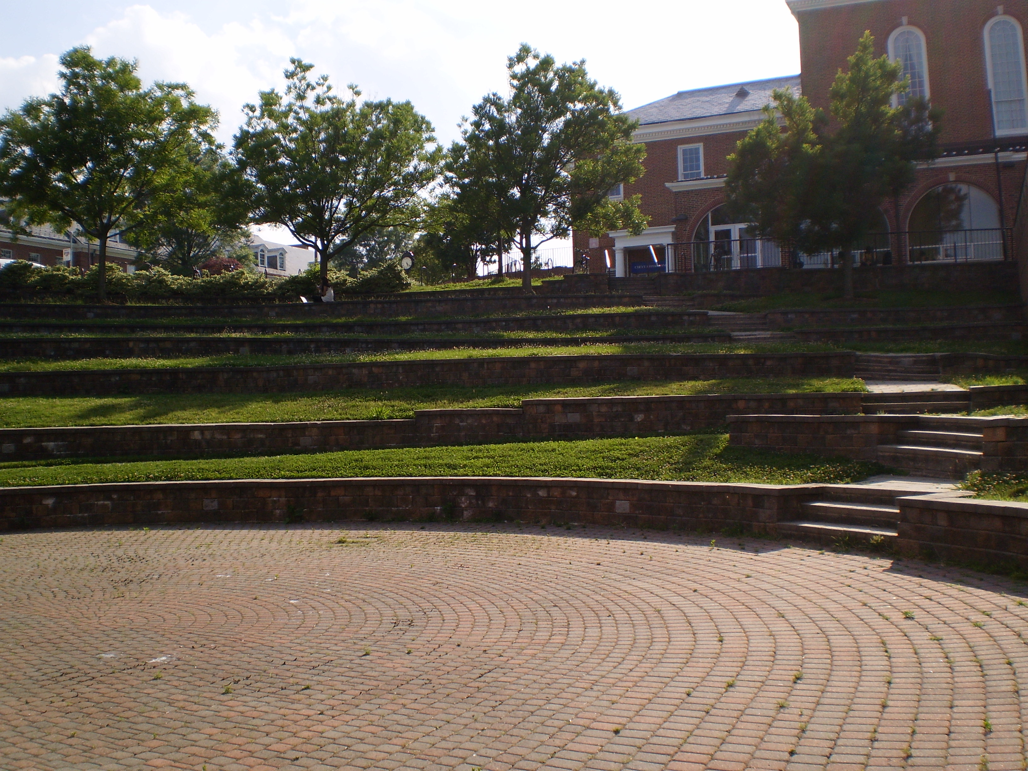 The Nyumburu Ampitheater, an outdoor performance center on the campus of the University of Maryland, College Park.